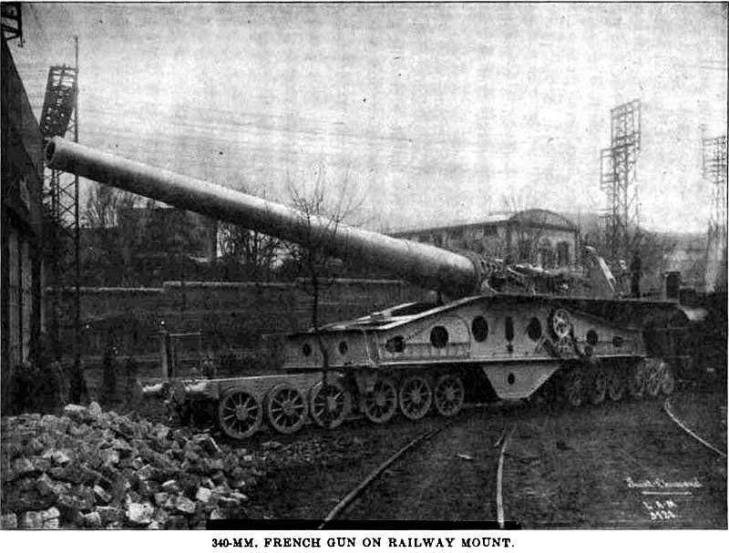 Photograph of French 340-mm St Chamond railway gun.